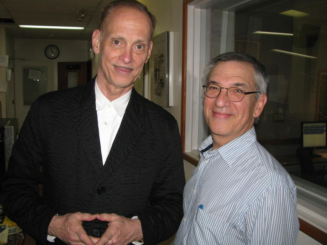 Jon Wiener (right) is an American historian, journalist, professor emeritus at the University of California (Irvine), contributing editor to The Nation and host of its weekly podcast, "Start Making Sense." John Samuel Waters, Jr. (born April 22, 1946) is an American film director, screenwriter, author, actor, stand-up comedian, journalist, visual artist, and art collector, who rose to fame in the early 1970s for his transgressive cult films.